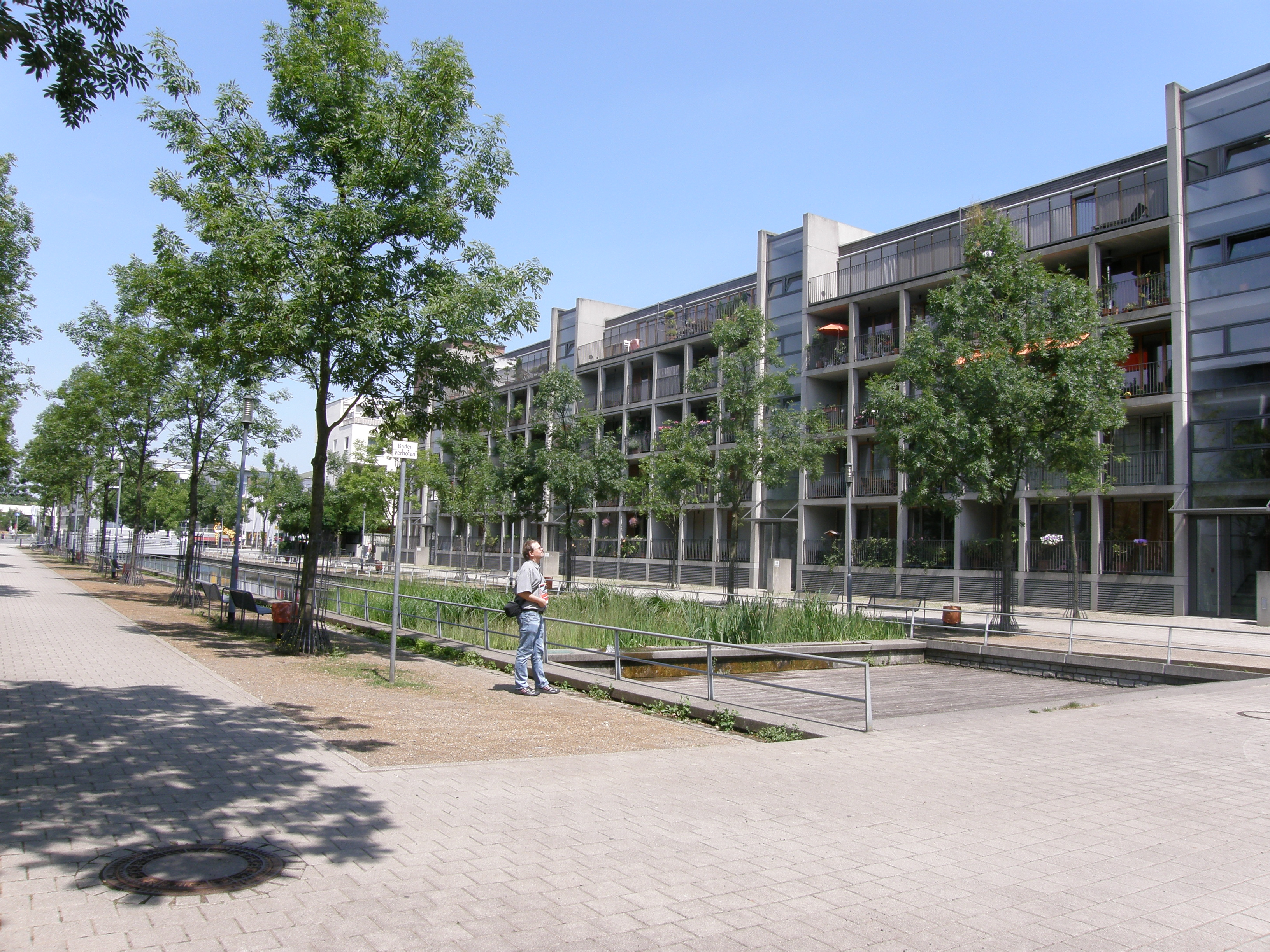 Hansegracht in Duisburg